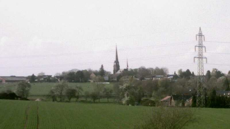 Skyline of Bockert, Viersen, Germany.